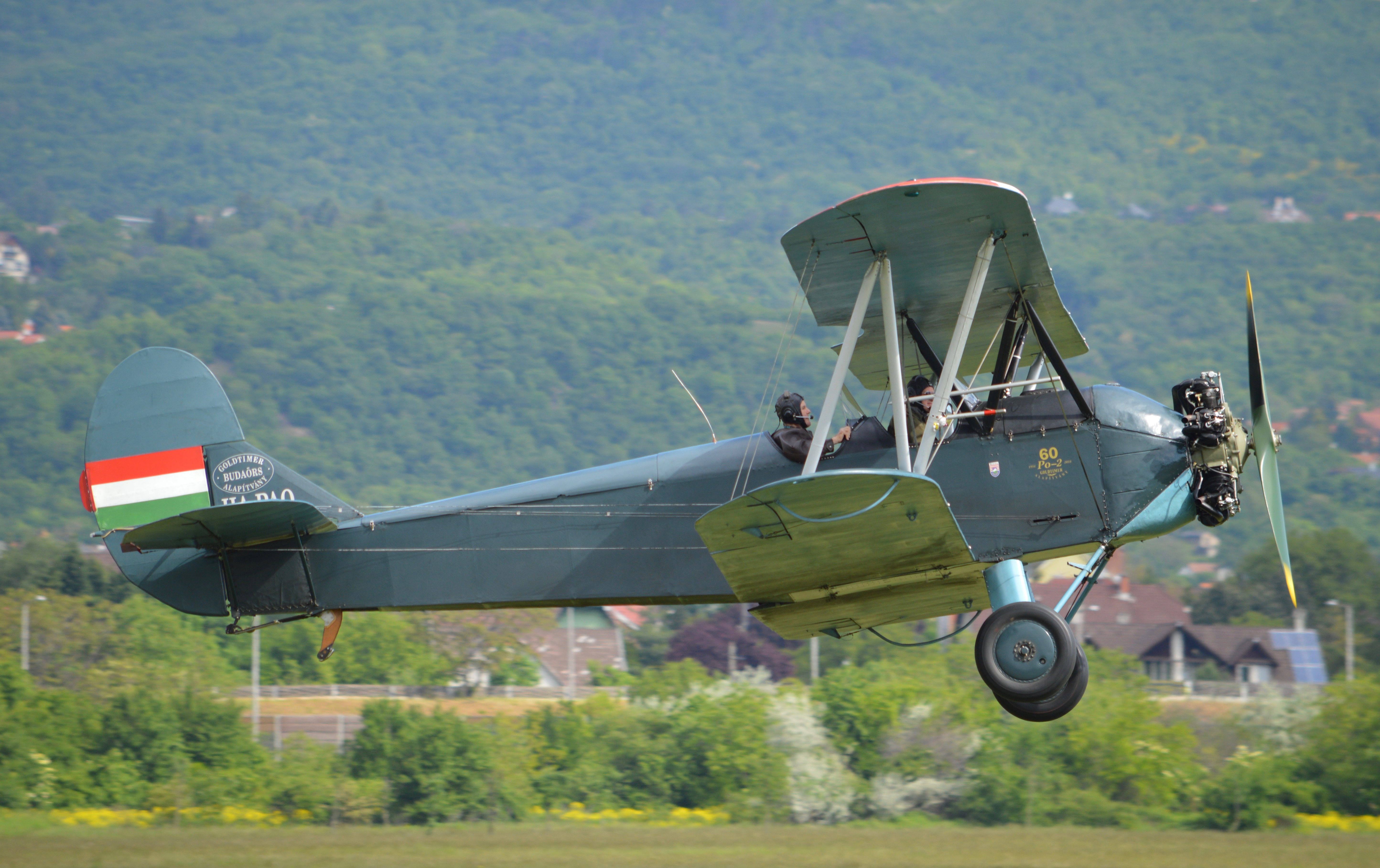 Polikarpov Po-2 (CSS-13) aircfraft, Budaörs Airfield, Hungary